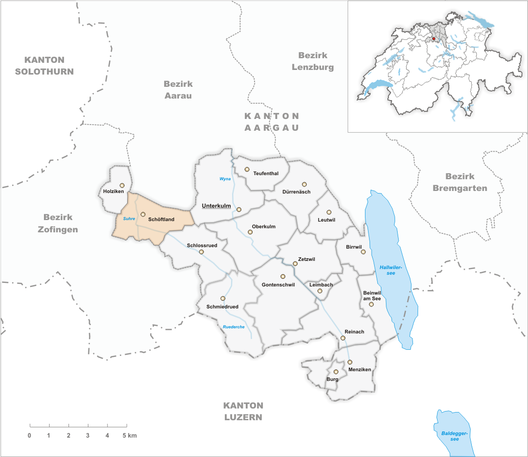 Municipality Schöftland